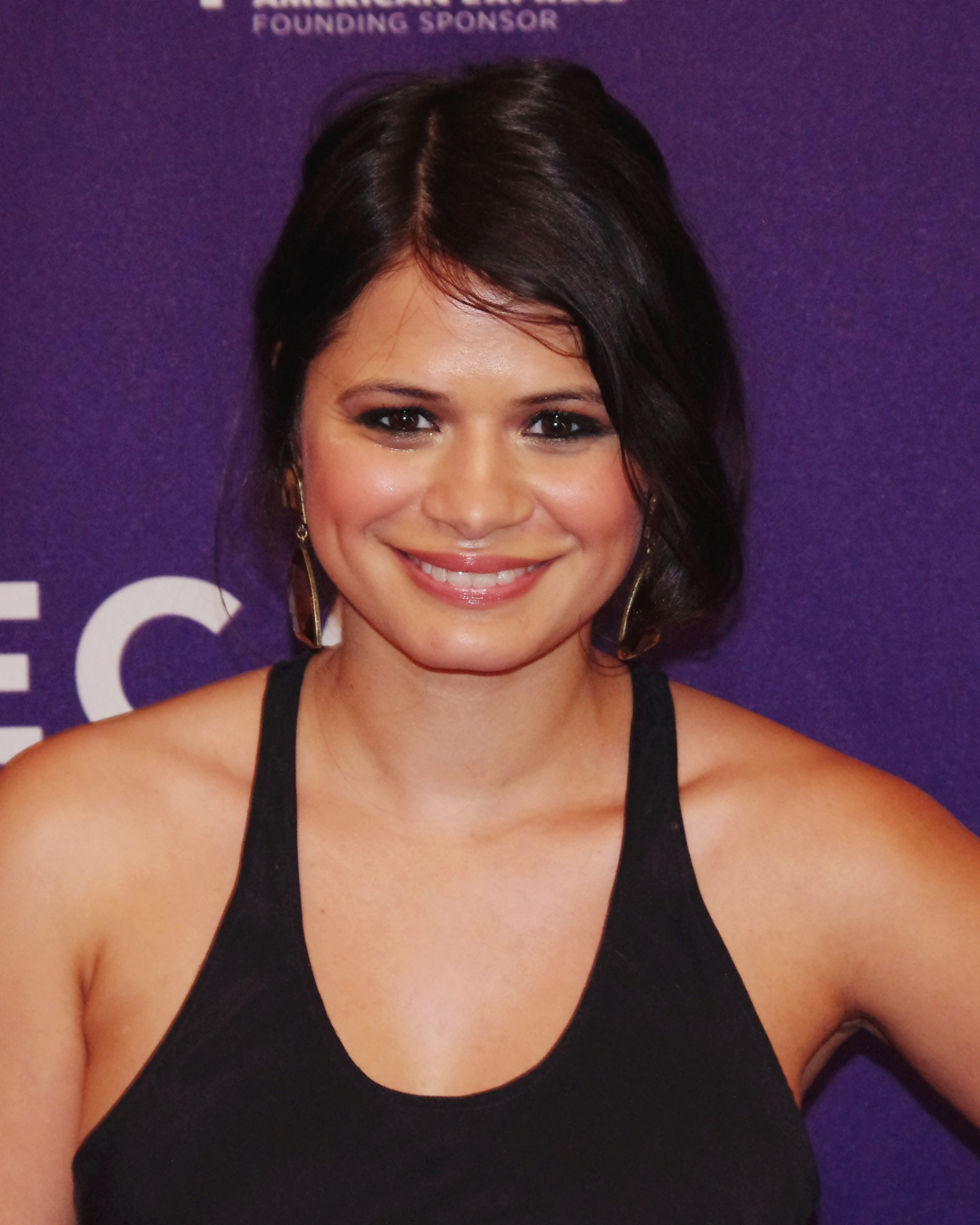 Melonie Diaz at the 2012 Tribeca Film Festival